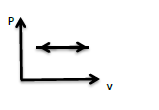 when P is constant